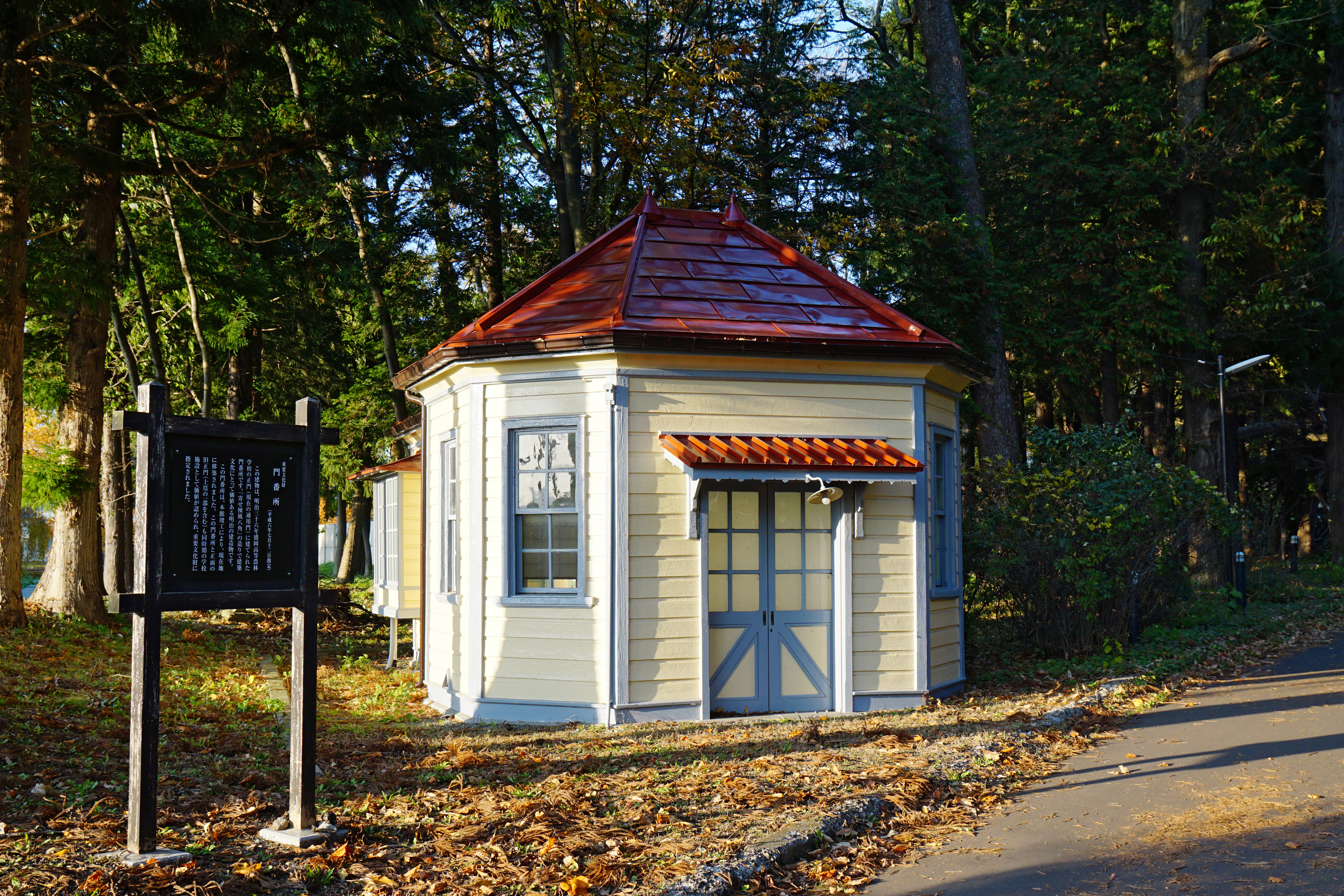 Iwate_University in Morioka, Iwate prefecture, Japan